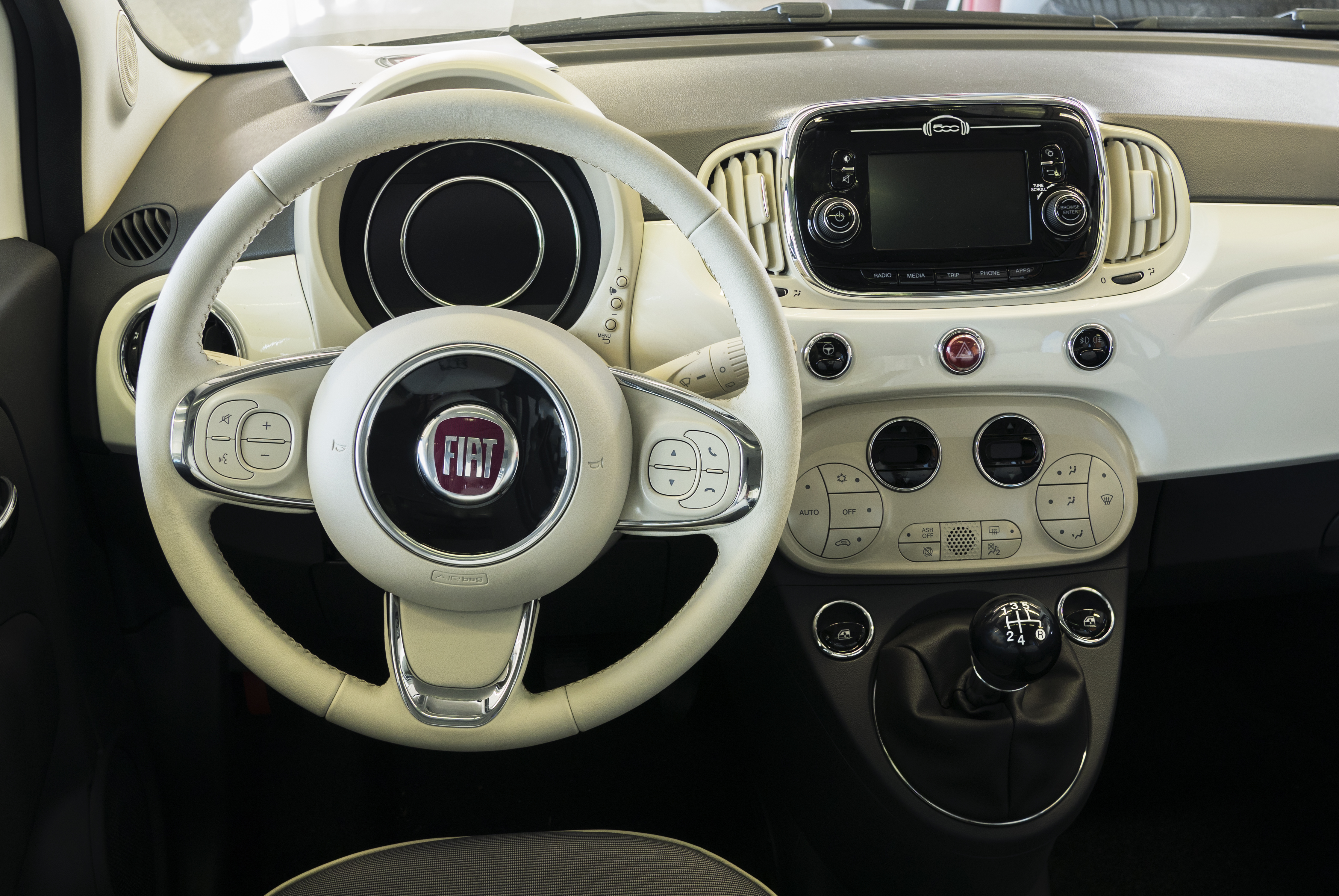 FIAT 500 white dashboard